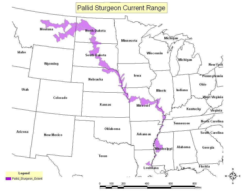 Range map for the endangered species Pallid sturgeon (Scaphirhynchus albus)